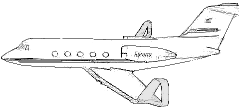 Drawing of a special type of winglets, called spiroids.